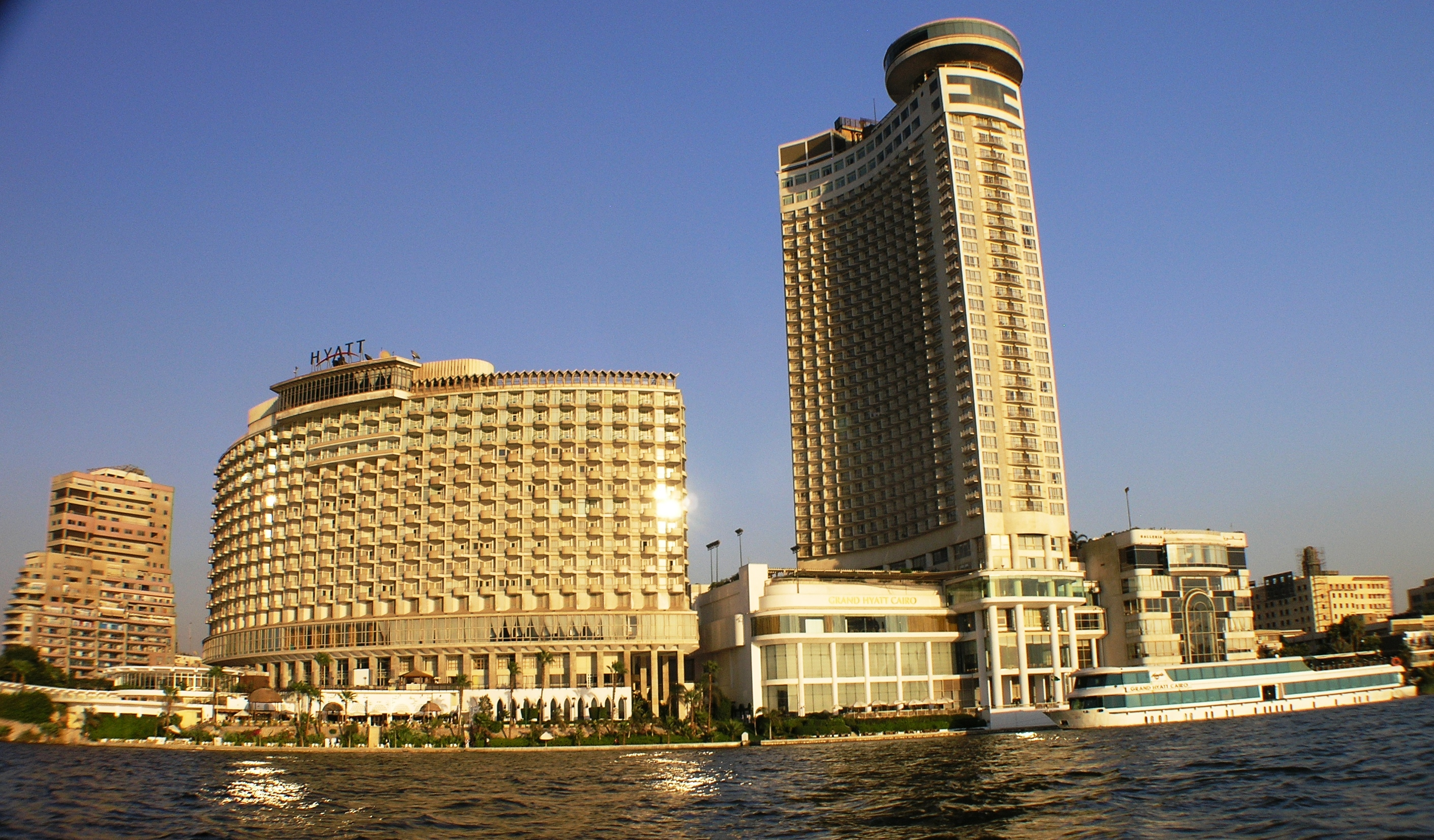 Cairo - Garden City - Hyatt from the Nile